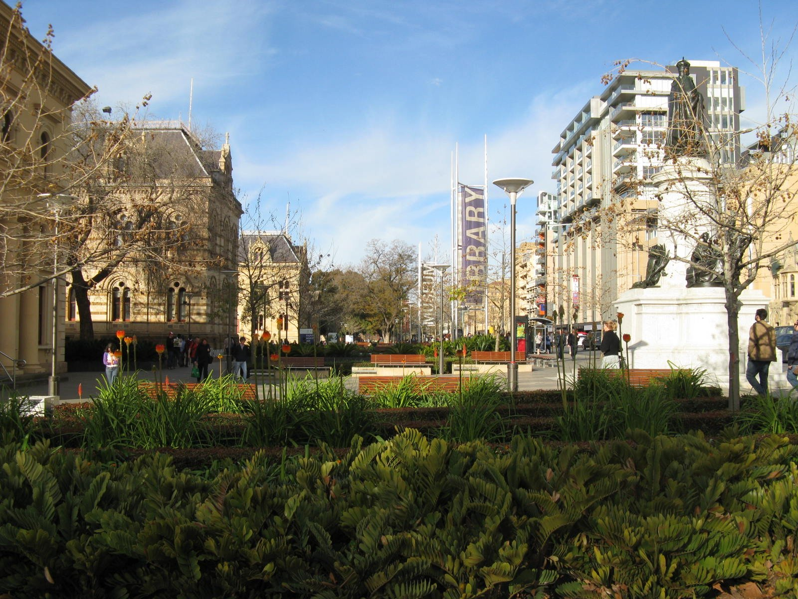 North Terrace looking East from Kintore Ave, Winter 2008.